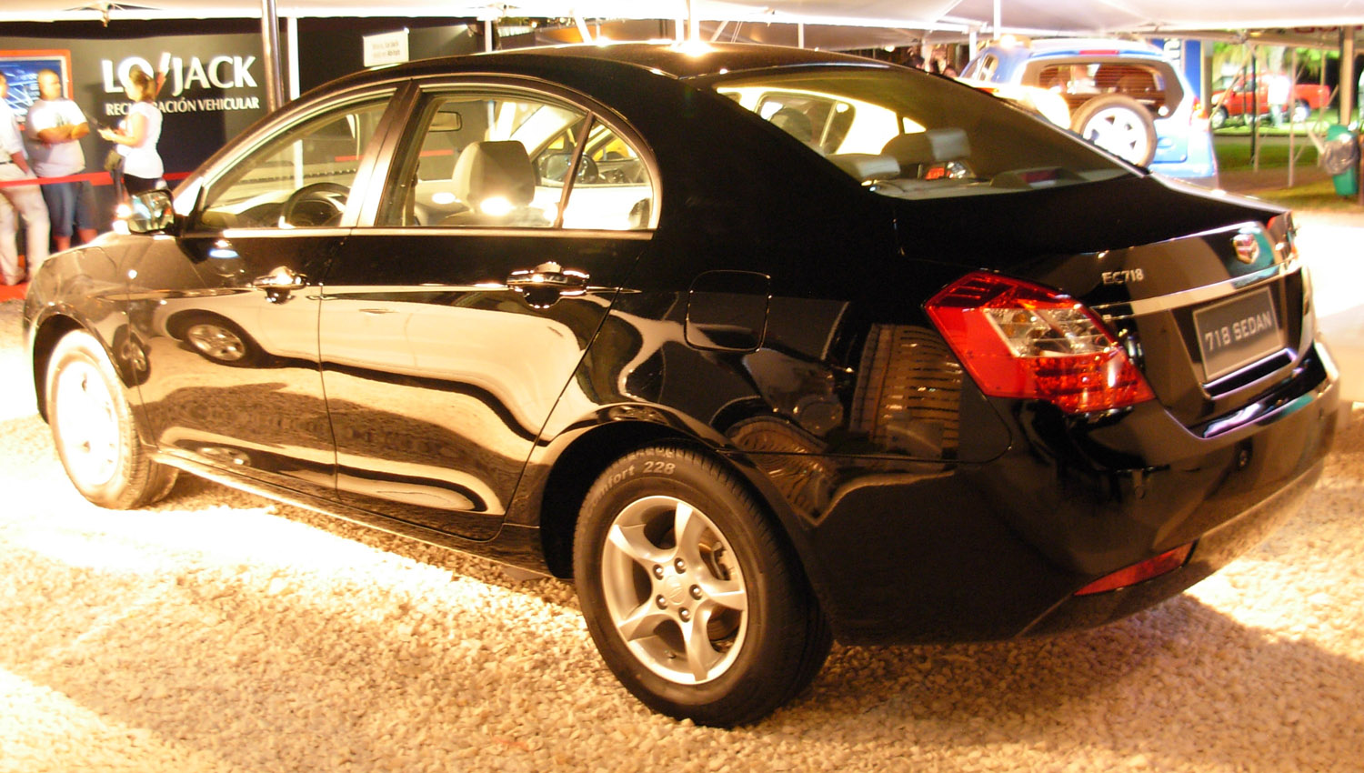 Geely Emgrand 718 sedan at the 2012 Montevideo Motor Show.